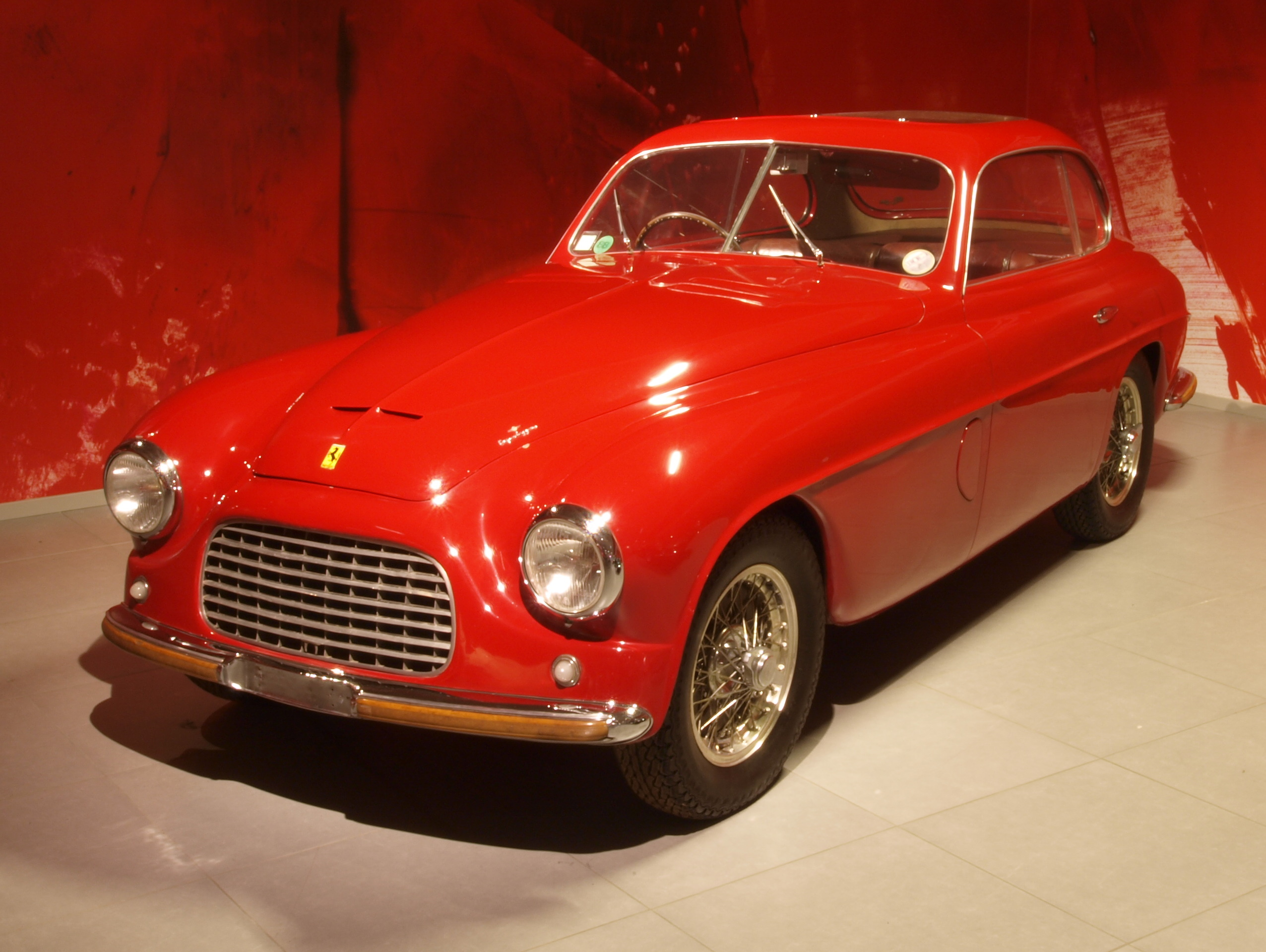 Photographed at the Louwman museum / Louwman Collection, The Netherlands.